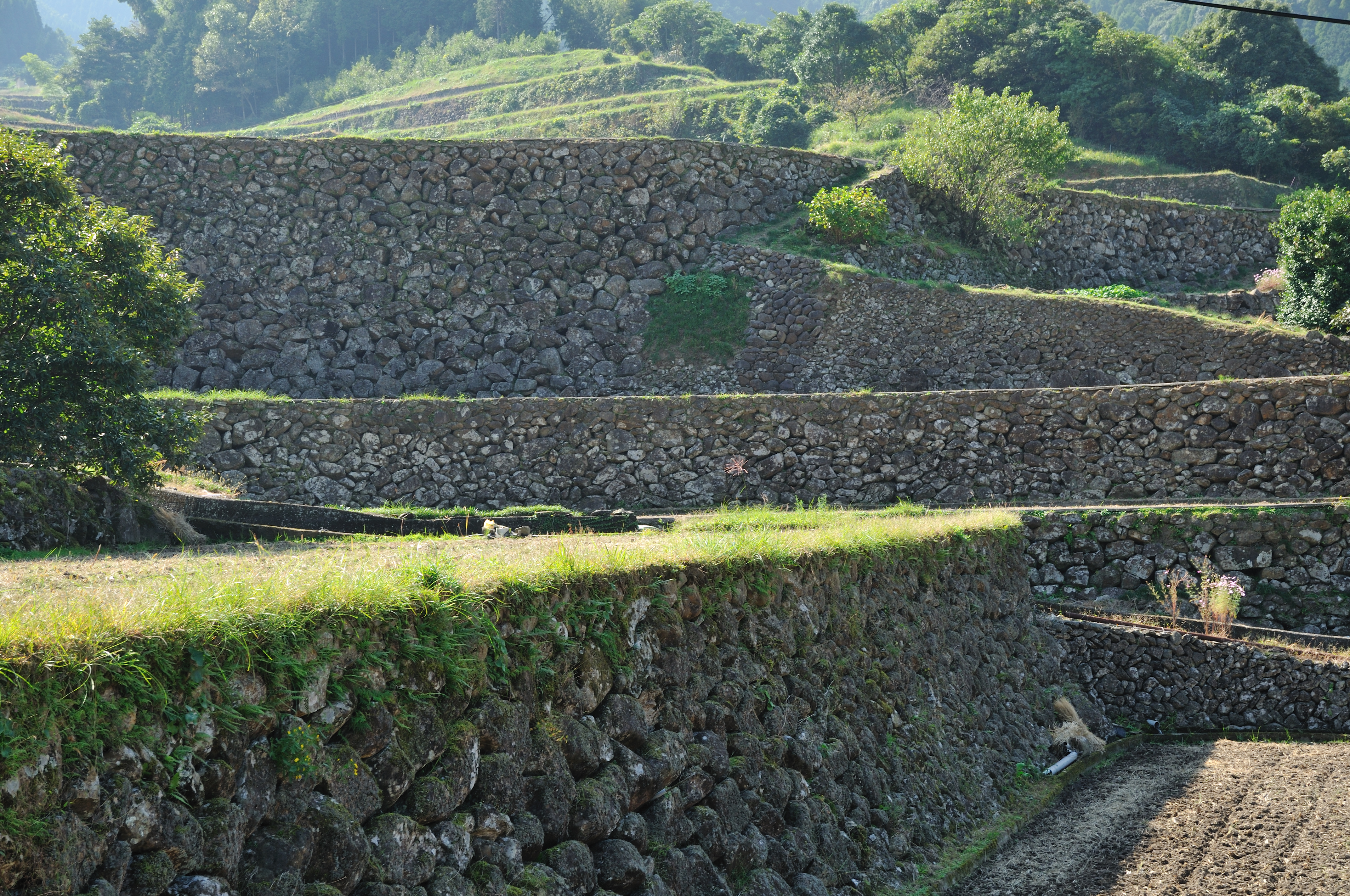 Rice terrace of Warabino(in Ouchi town, Karatsu city, Saga pref.).